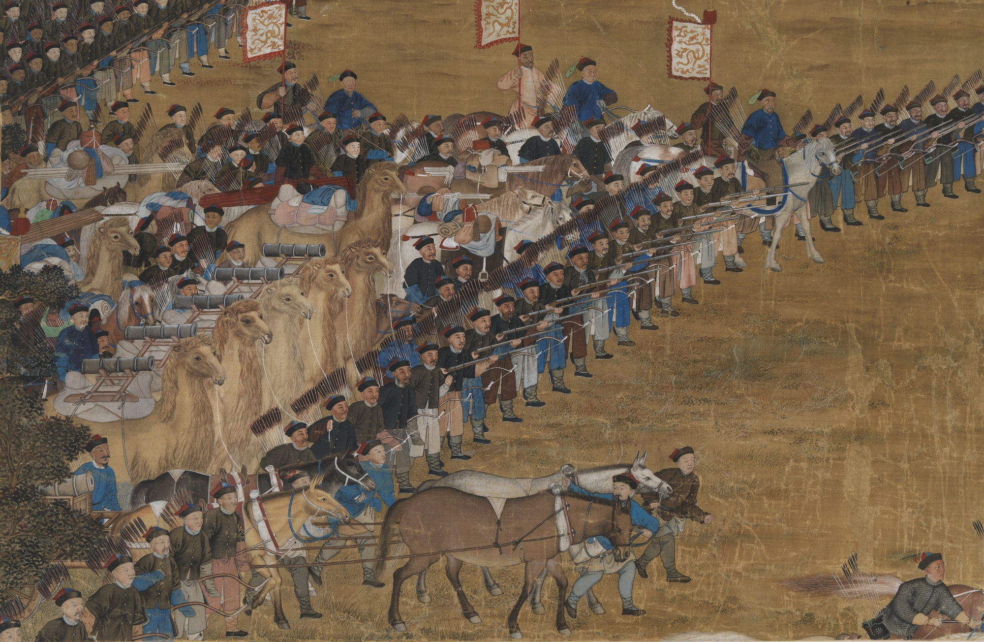 Arigun bringing reinforcements to General Zhaohui to lift the siege of the Black River fort, 1759. The painting depicts Chinese officers and enlisted men and a varied array of weapons and units, including archers,musketeers and camel artillery